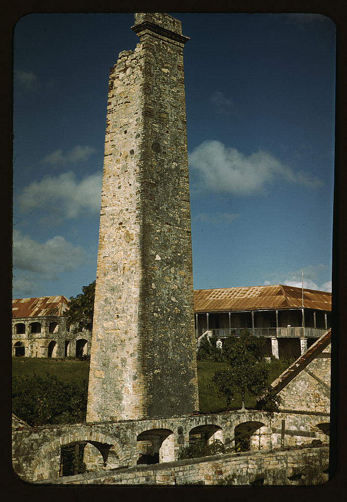 Ruins of a sugar mill chimney at Estate Little Princess — on St. Croix in the Christiansted region, United States Virgin Islands. Estate Little Princess was Danish colonial sugar plantation during the Danish West Indies era. A National Historic Landmark, and on the National Register of Historic Places in the United States Virgin Islands.